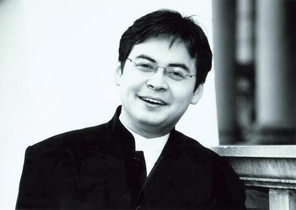 Picture of Alan Buribayev